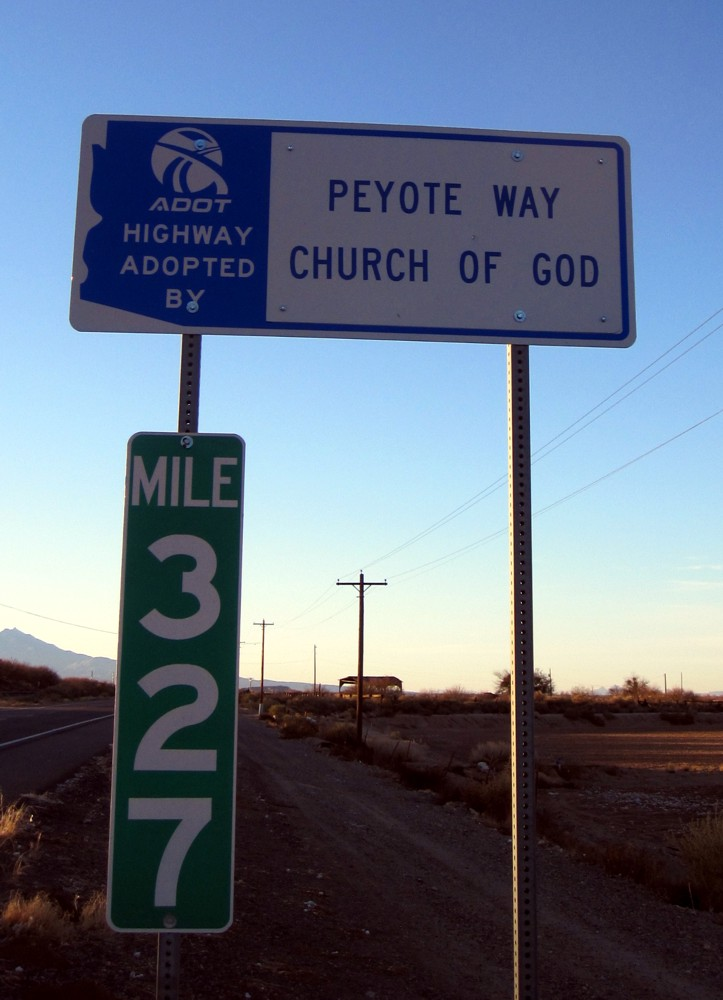 A street sign in the United States